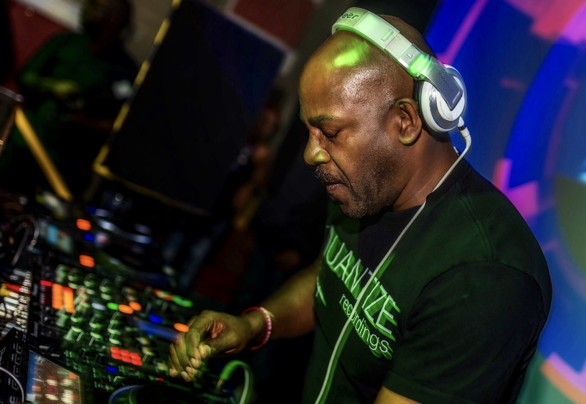 Dj Spen in the UK